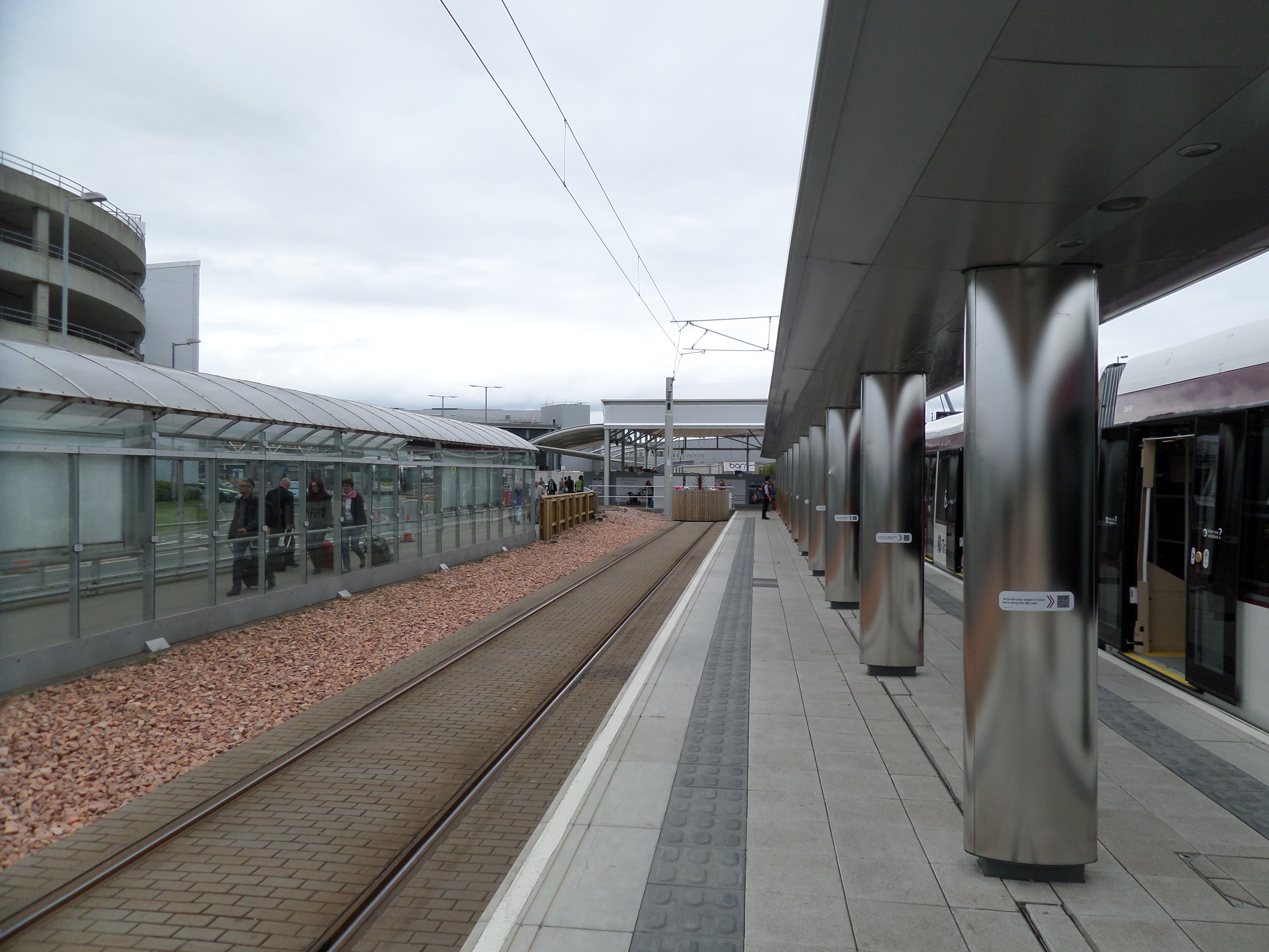 The Edinburgh Airport tram terminus, Scotland.